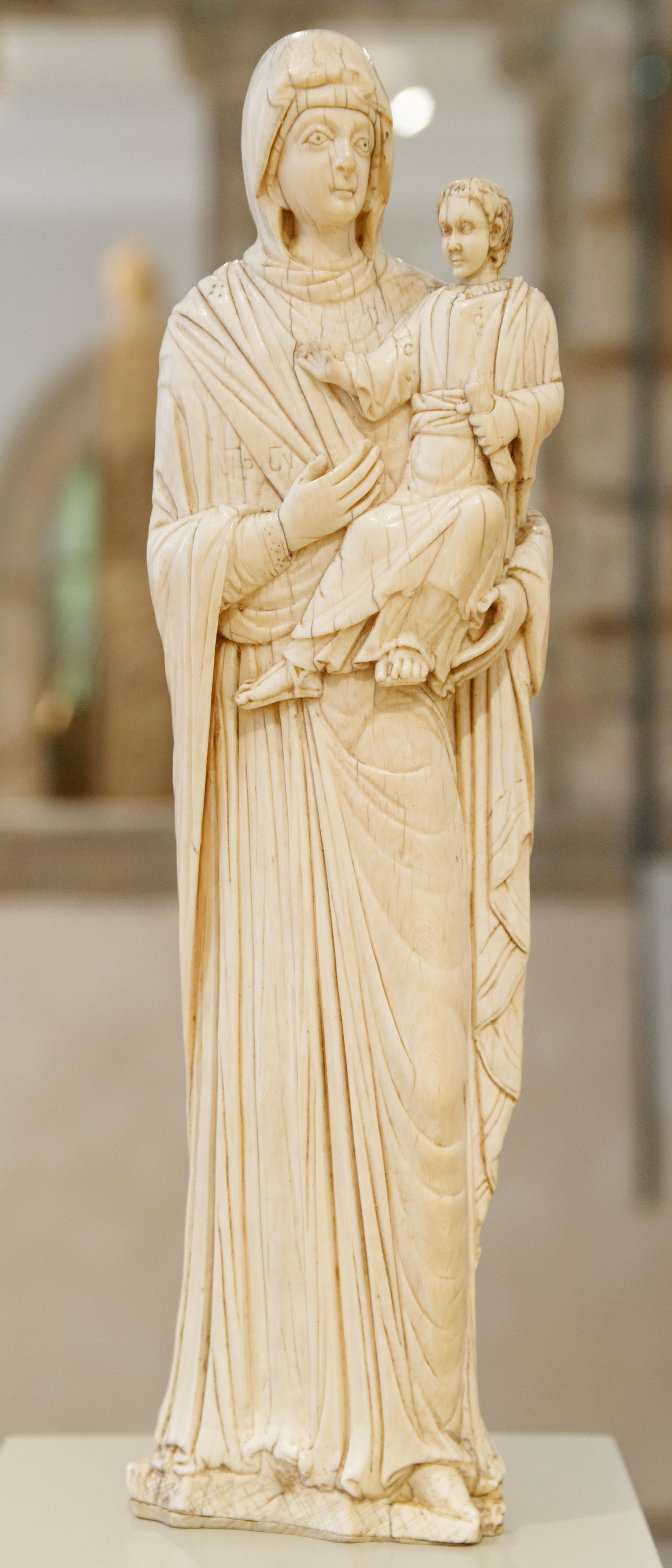 Virgin and Child, composition known as the Theotokos Hodegetria (Mother of God showing the way), Byzantine artwork.